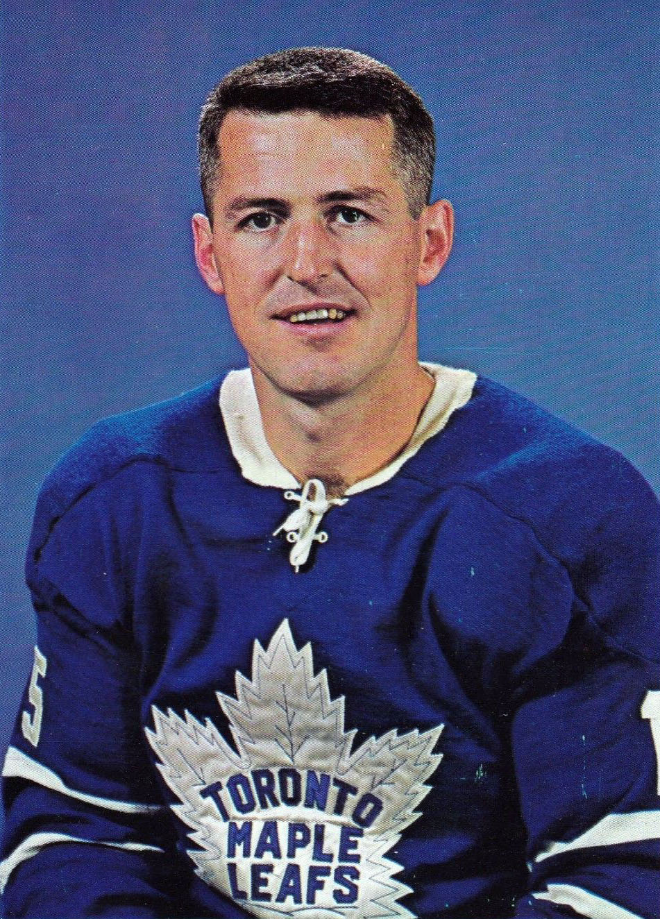 Trading card photo of Billy Harris as a member of the Toronto Maple Leafs. These cards were printed on the backs of Chex cereal boxes in the US and Canada from 1963 to 1965. Those collecting the cards cut them from the back of the boxes. Harris' card at PSA.